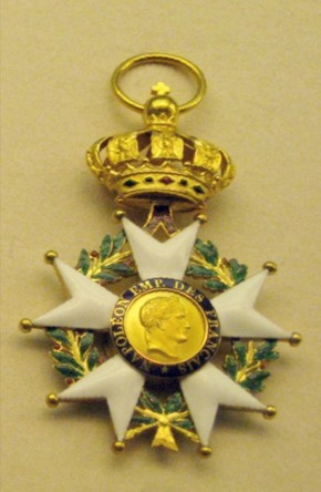 badge of the Legion d'honneur. 2nd half 19th c.